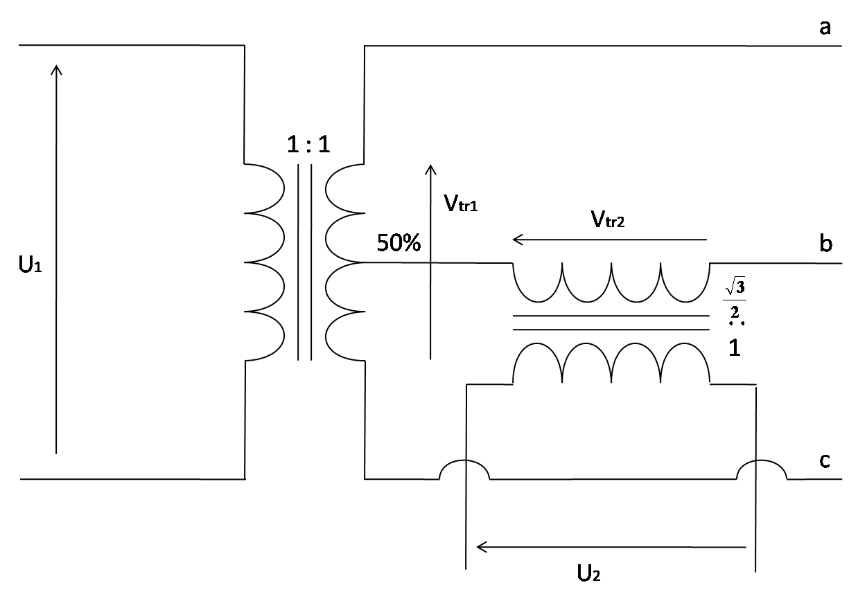 Scott Transformers Diagram